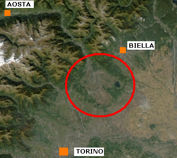 Satellite photo of the Anfiteatro morenico di Ivrea '